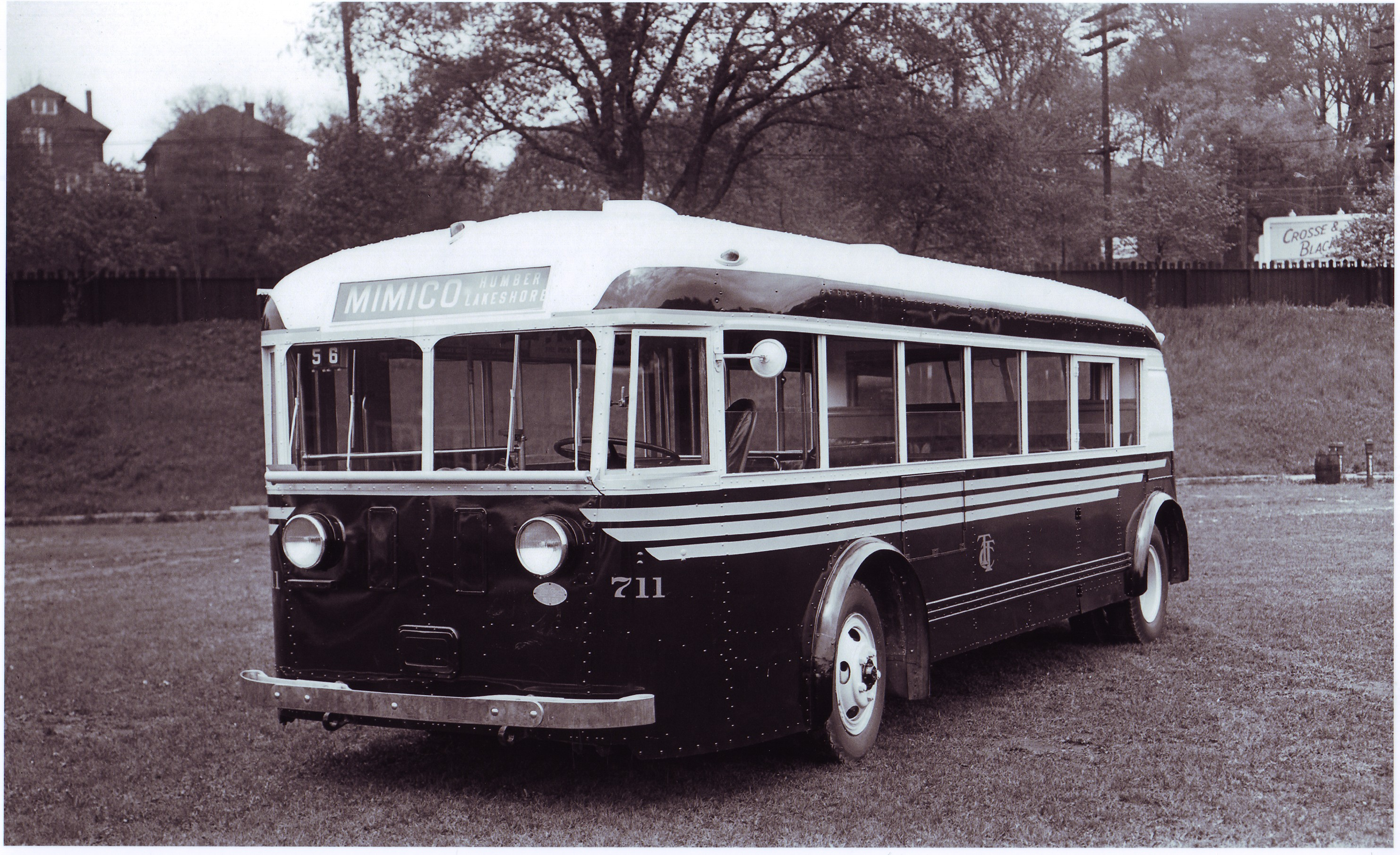 TTC bus on the Mimico 55 route in 1946. In 1946 Mimico, Ontario was a satellite municipality -- not part of Toronto. Original caption: “TTC Twin Coach 23-R bus #711 poses for the camera on May 21, 1946, bearing a MIMICO linen. Photo submitted courtesy Pete Coulman and the TTC Archives.”